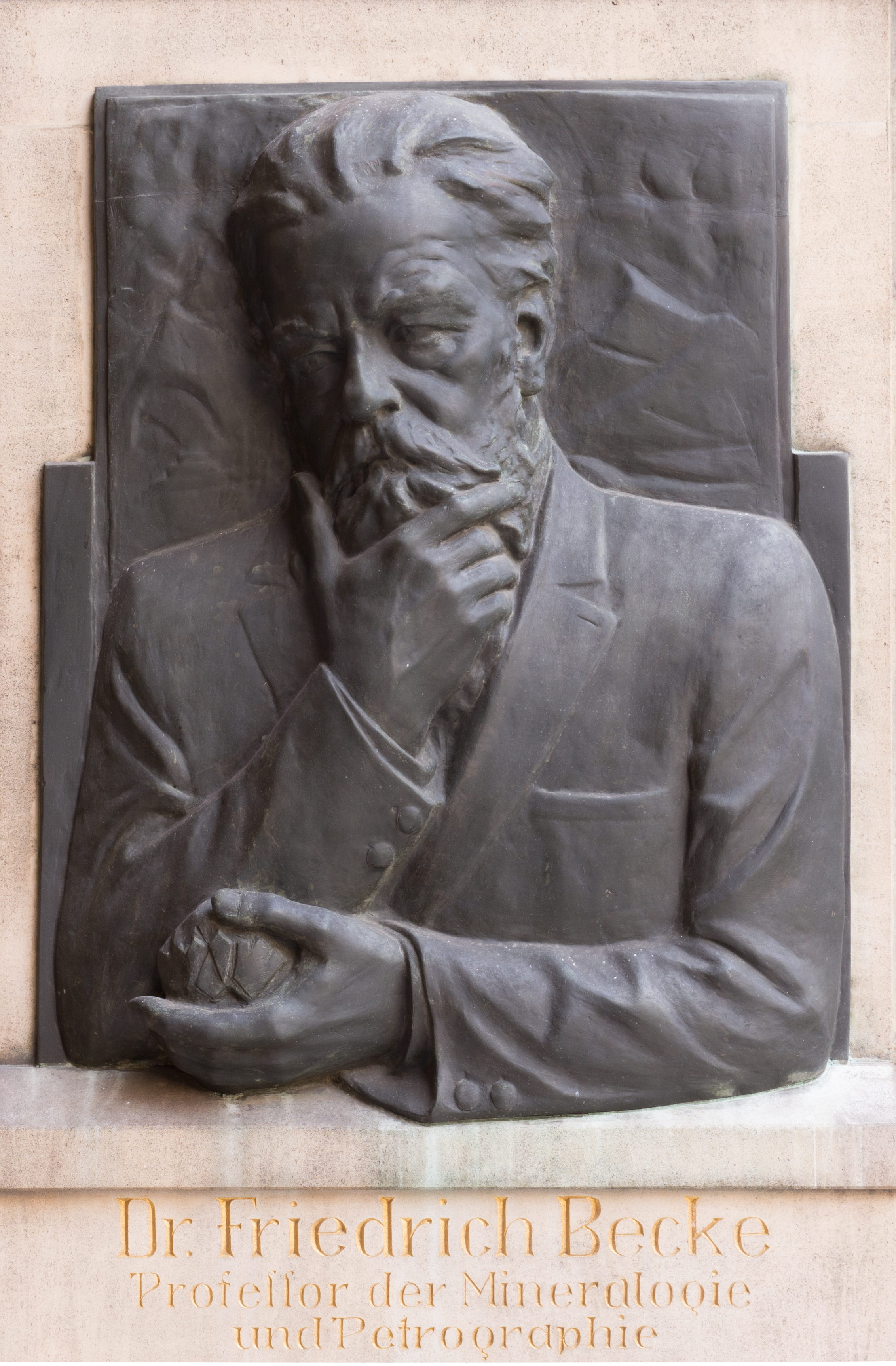 Friedrich Becke (1855-1931), relief (bronze) in the Arkadenhof of the University of Vienna, (Maisel# 29). Artist: André Roder (1900-1959), unveiled 1929 The making of this work was supported by Wikimedia Austria. For other files made with the support of Wikimedia Austria, please see the category Supported by Wikimedia Österreich.